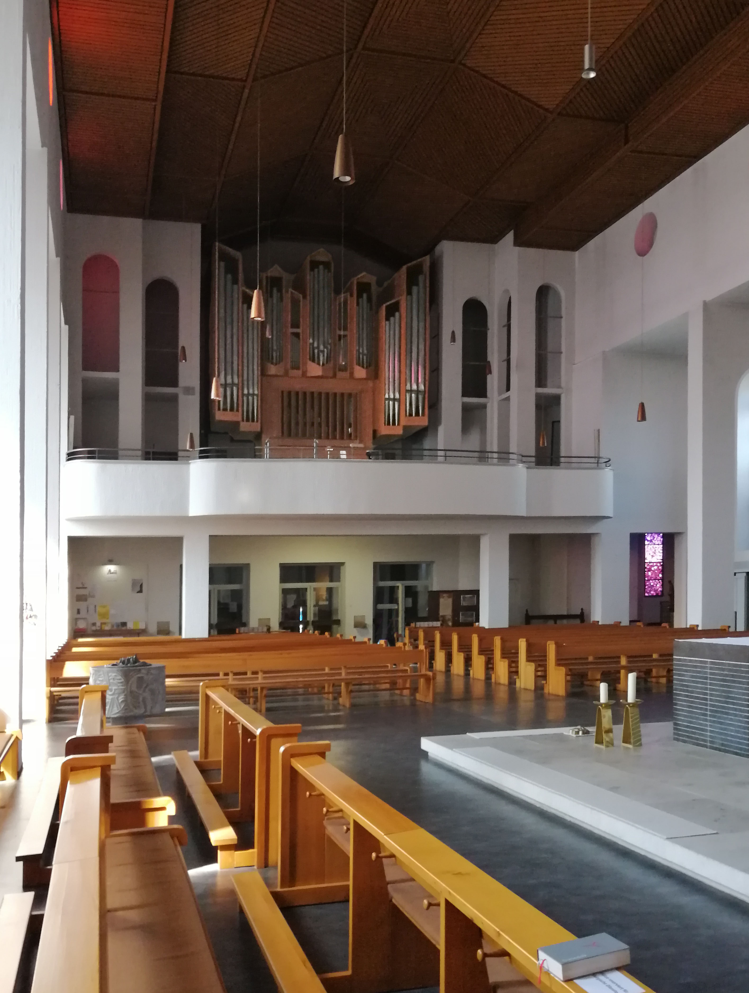 St. Elisabeth - Orgel